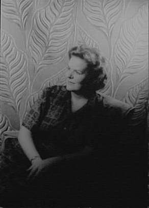 Portrait of Maureen Forrester, taken by photographer Carl Van Vechten